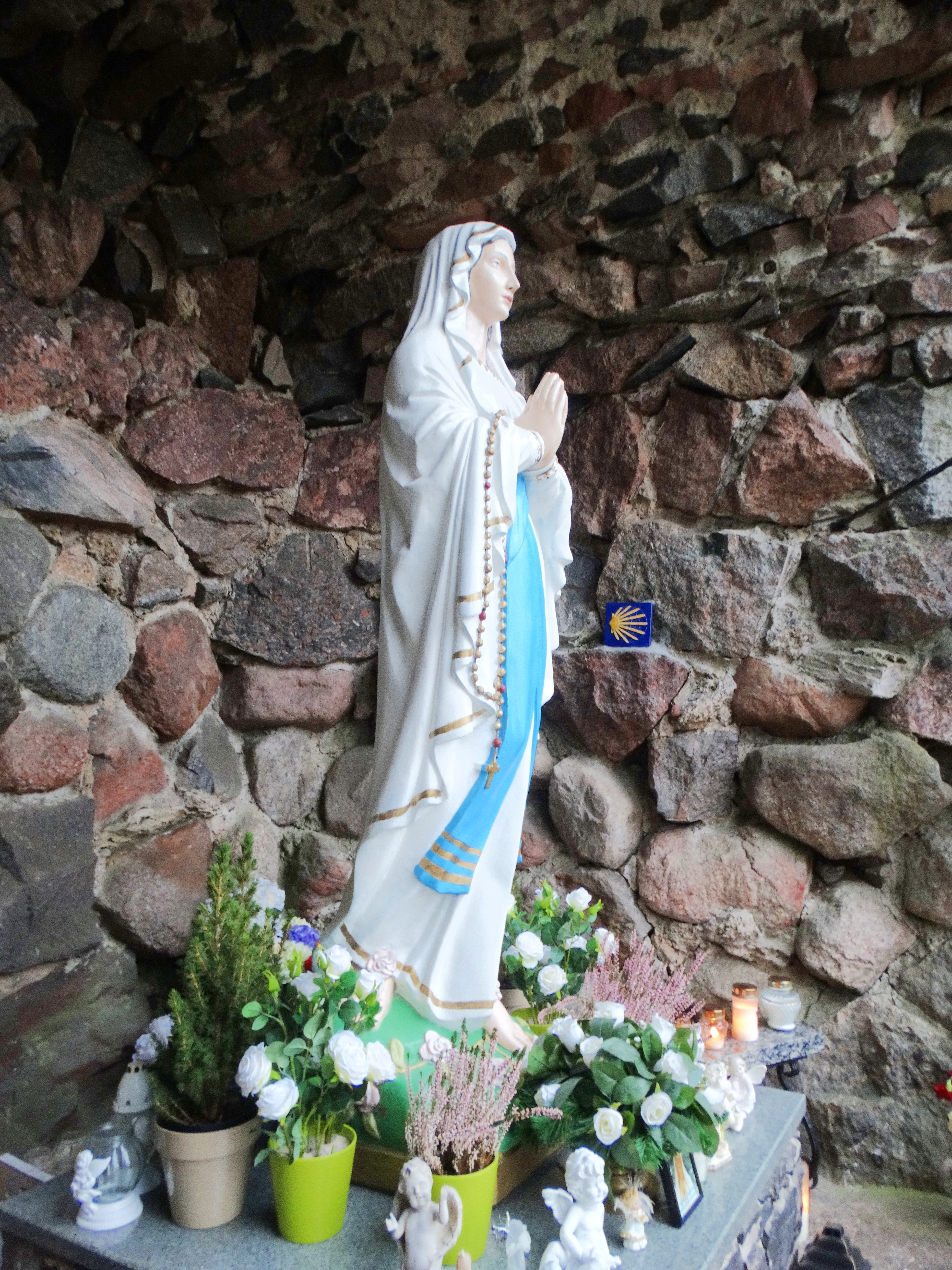 St. Mary, Lourdes in Plungė, Lithuania